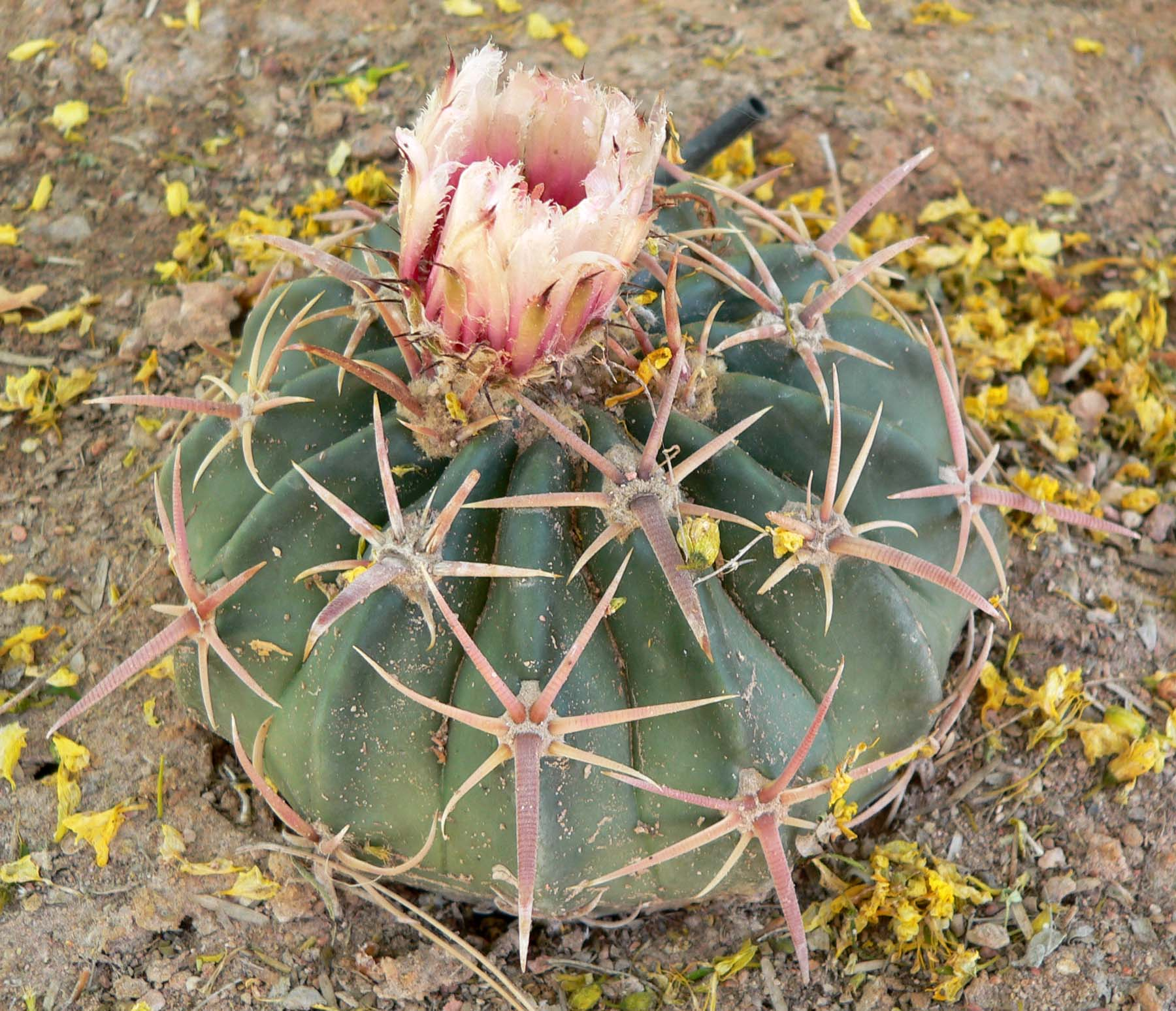 Photo of Echinocactus texensis at the Springs Preserve garden in Las Vegas, Nevada